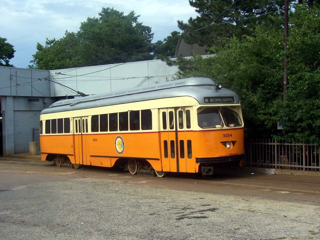 MBTA M-line trolley car #3254 leaving the Ashmont station bound for Mattapan. Car 3254 is a PCC streetcar/trolley built by Pullman-Standard in 1946.